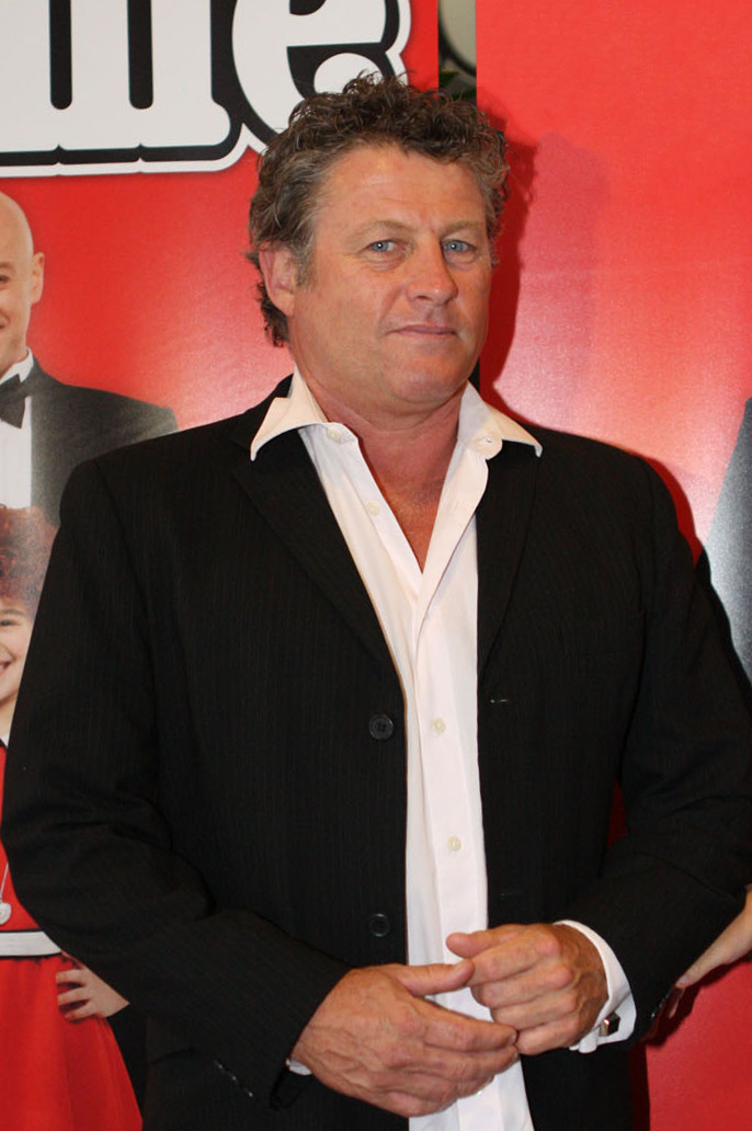 Peter Phelps attending Annie The Musical Media Preview At The Star: Sydney, Australia